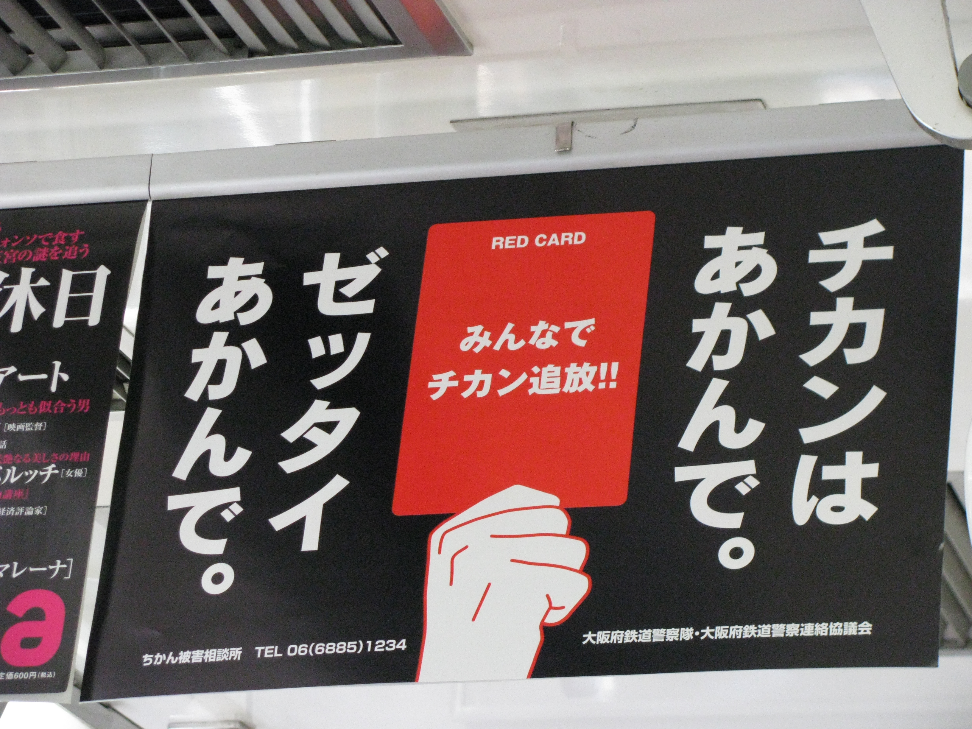 A sign in a Hankyu-line train in Osaka, Japan, warns Beware of Perverts